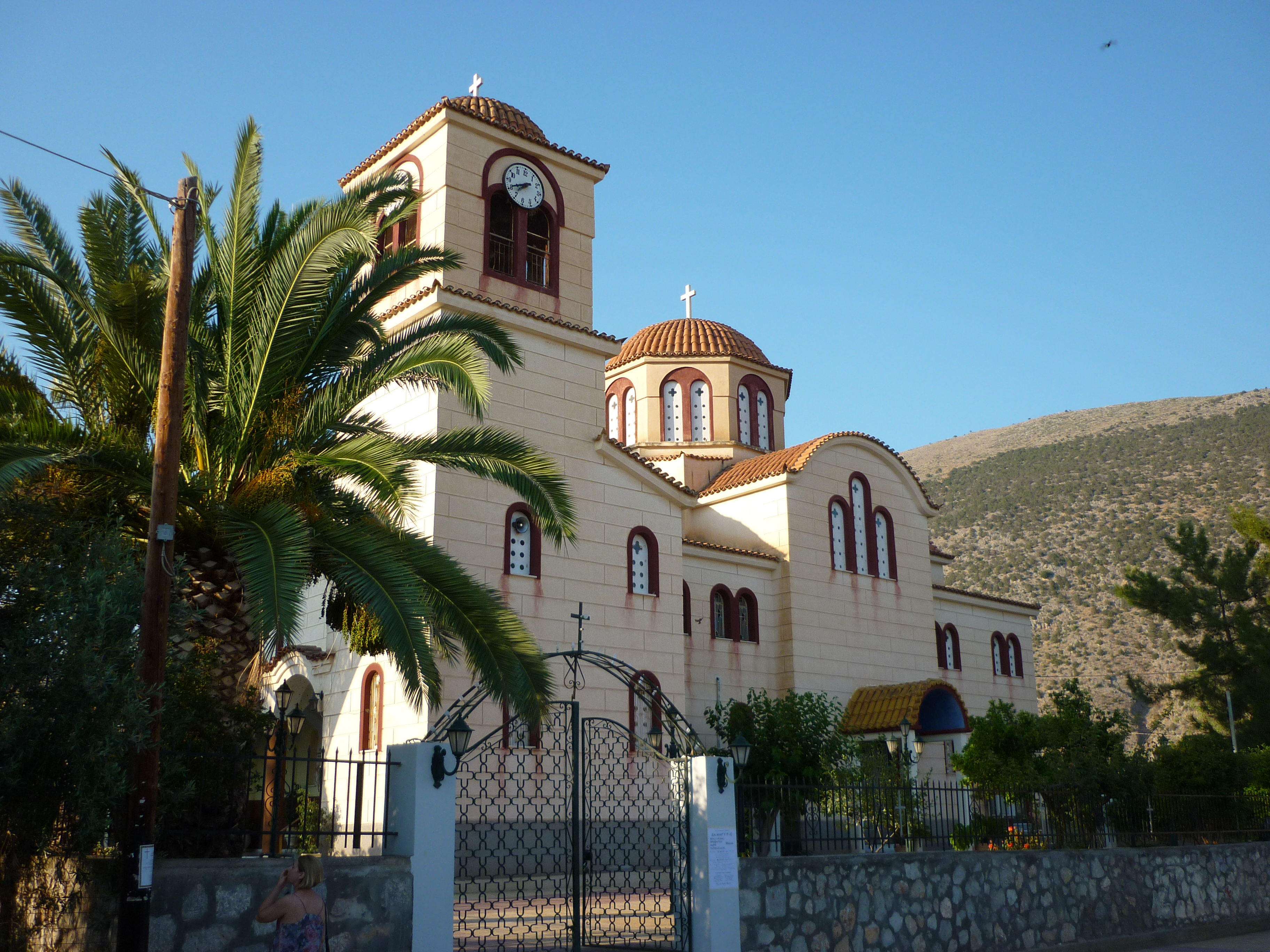 Kirra, Fokida, Greece: Church of Panagia.